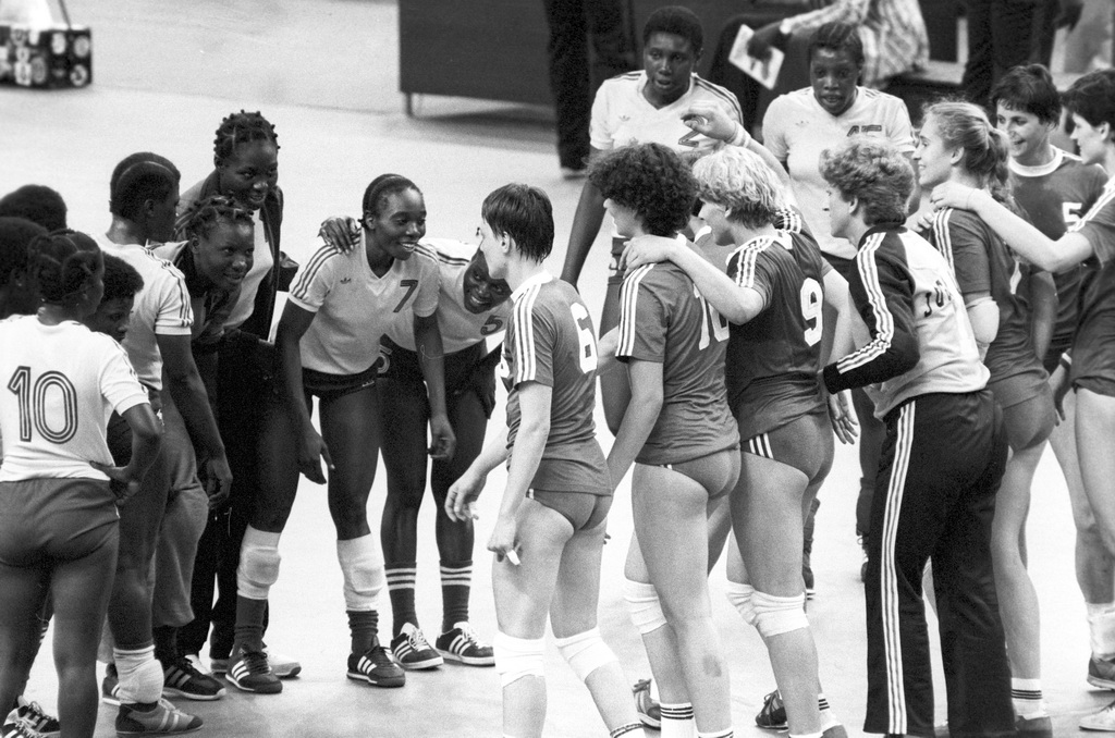 “Women's handball. Congo vs. SFRY”. Women's handball. Congo vs. Socialist Federal Republic of Yugoslavia (SFRY) at the 22nd Summer Olympic Games (July 19 - August 3).